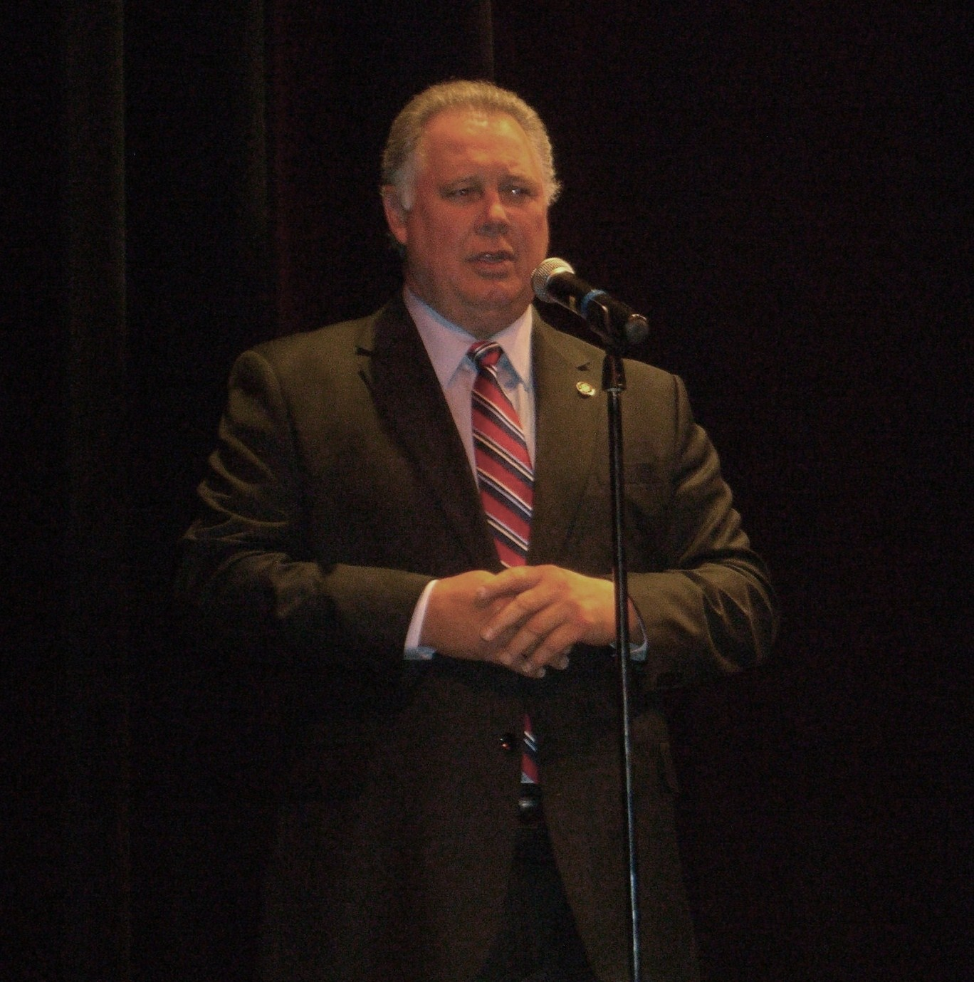 Congressman Albio Sires, of West New York, New Jersey, at the swearing-in ceremony of Union City, New Jersey Mayor Brian P. Stack at Union City High School on May 18, 2010, following Stack's re-election victory on May 11.